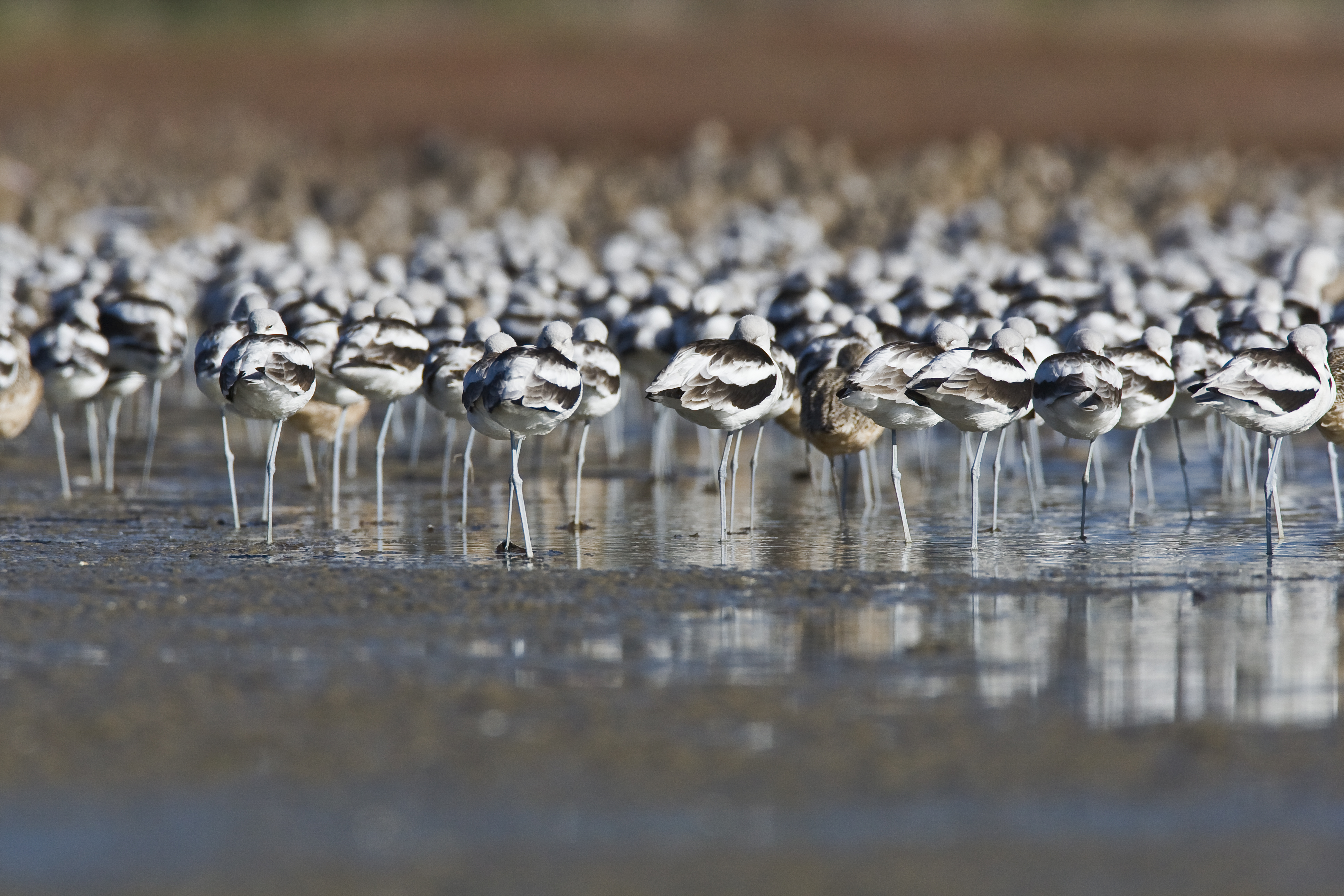 Avocets (Recurvirostra americana) in Morro Bay, CA at extreme high tide which forced birds to the shore, 24 Dec 2007 24dec2007 - Photo by Michael Mike L. Baird, Canon 1D Mark III with 600mm IS lens w/ 1.4X II TE and polarizer